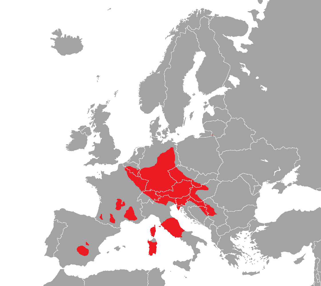 Distribution map of muflon.